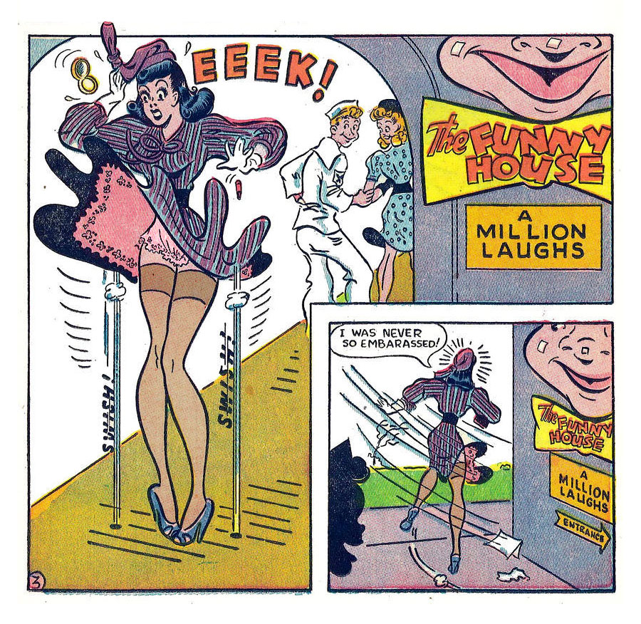 Katy Keene from Wilbur number 12 (Archie Comics, April 1947). While the comic was aimed at a predominately female audience, stories contained a generous amount of fan service.